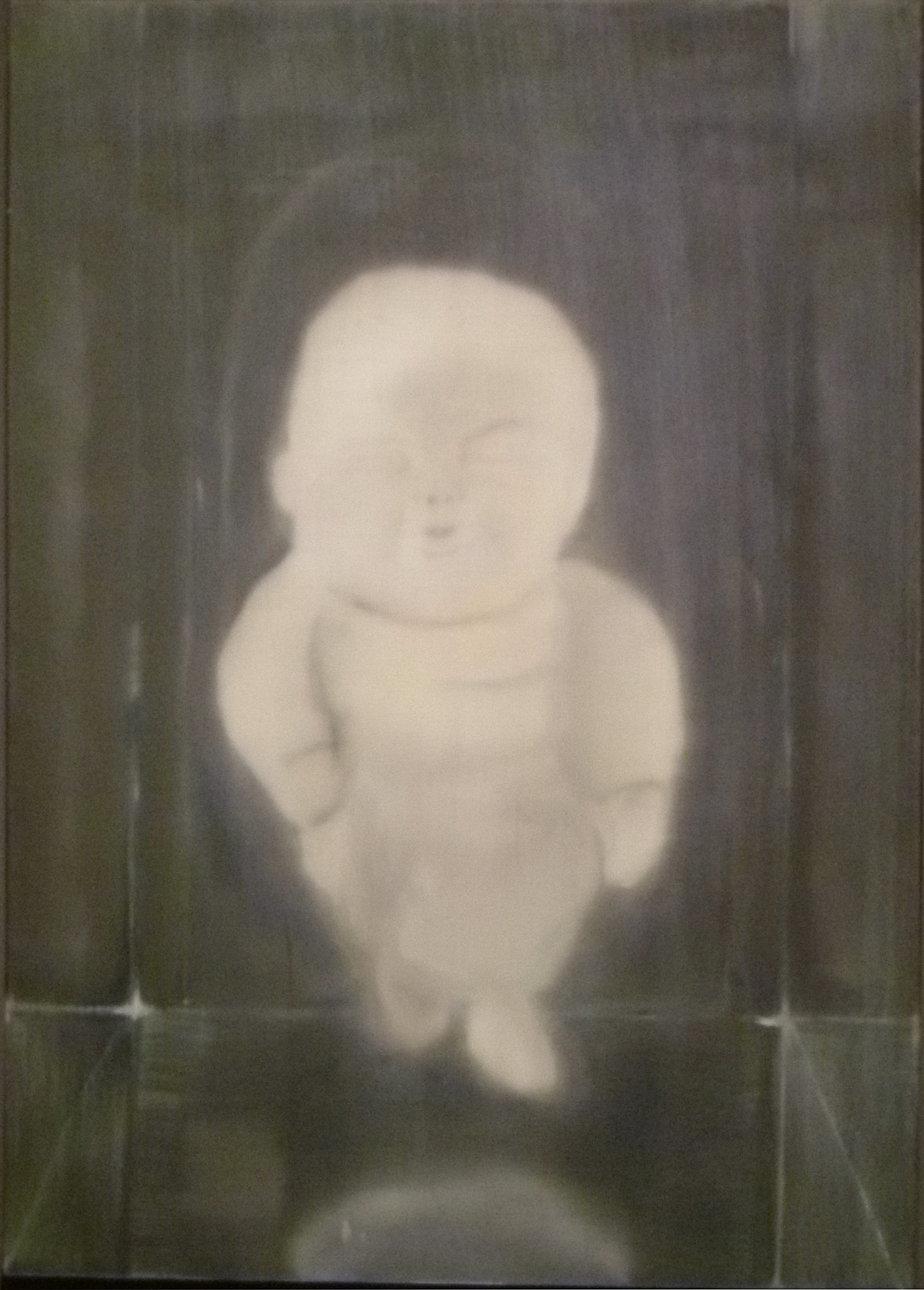 "Homunculus" (2011), oil on canvas (100 x 70 cm) post-modern painting by the Belgian artist Xavier Tricot